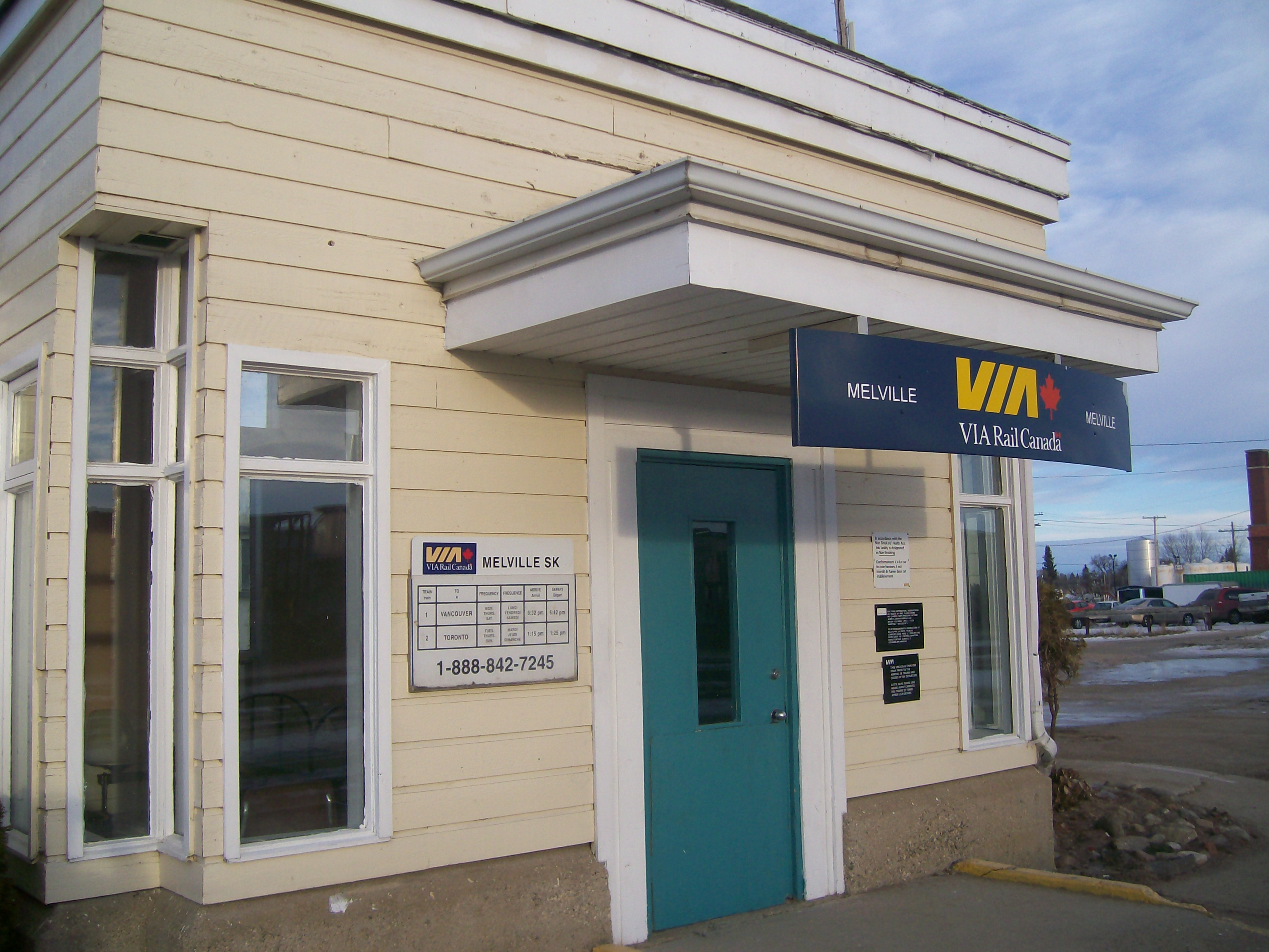 The VIA Rail station at Melville, Saskatchewan, Canada, seen in January 2012.